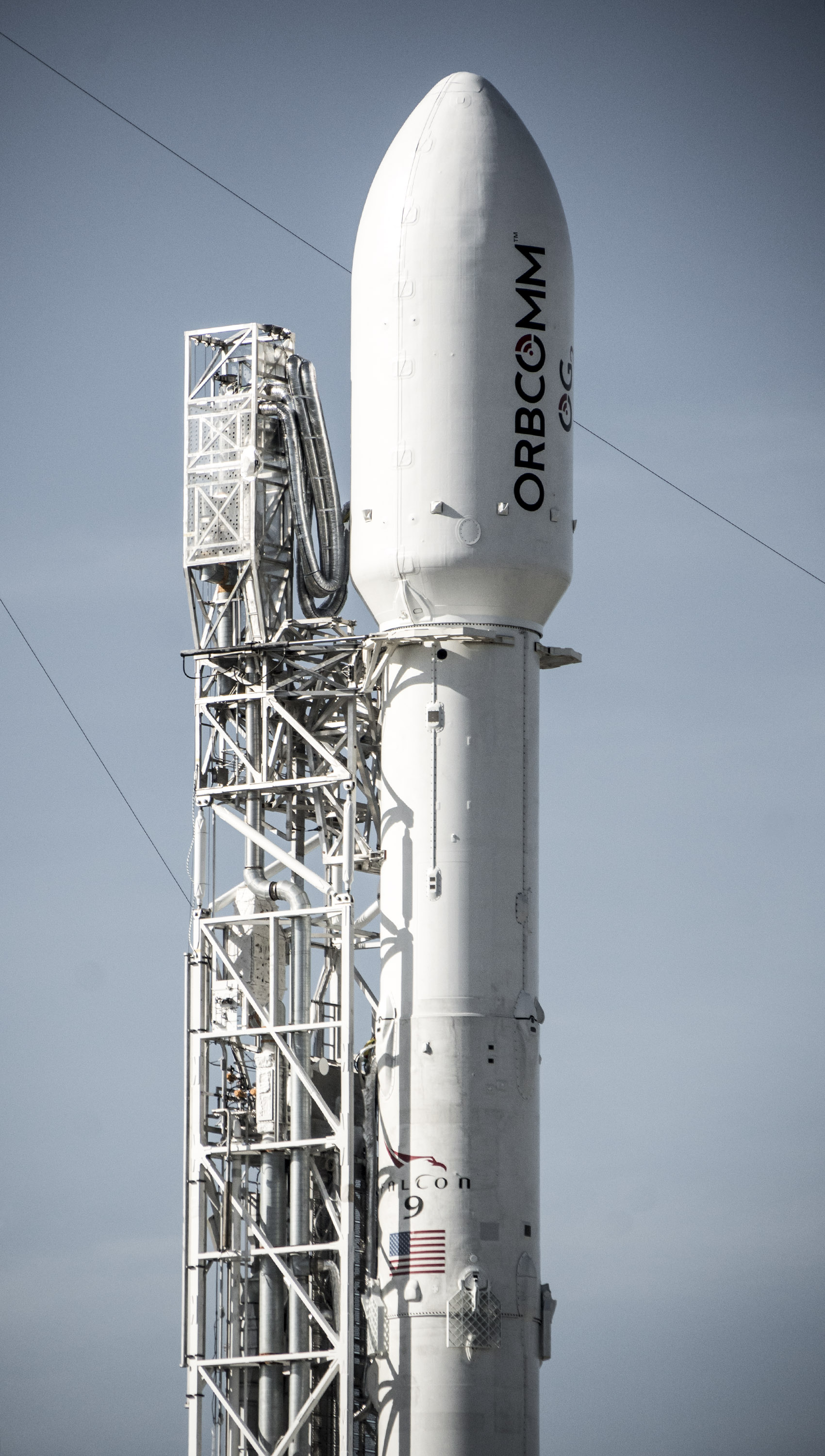 Falcon 9 on the pad in advance of mission to launch 11 ORBCOMM satellites & attempt 1st stage landing.